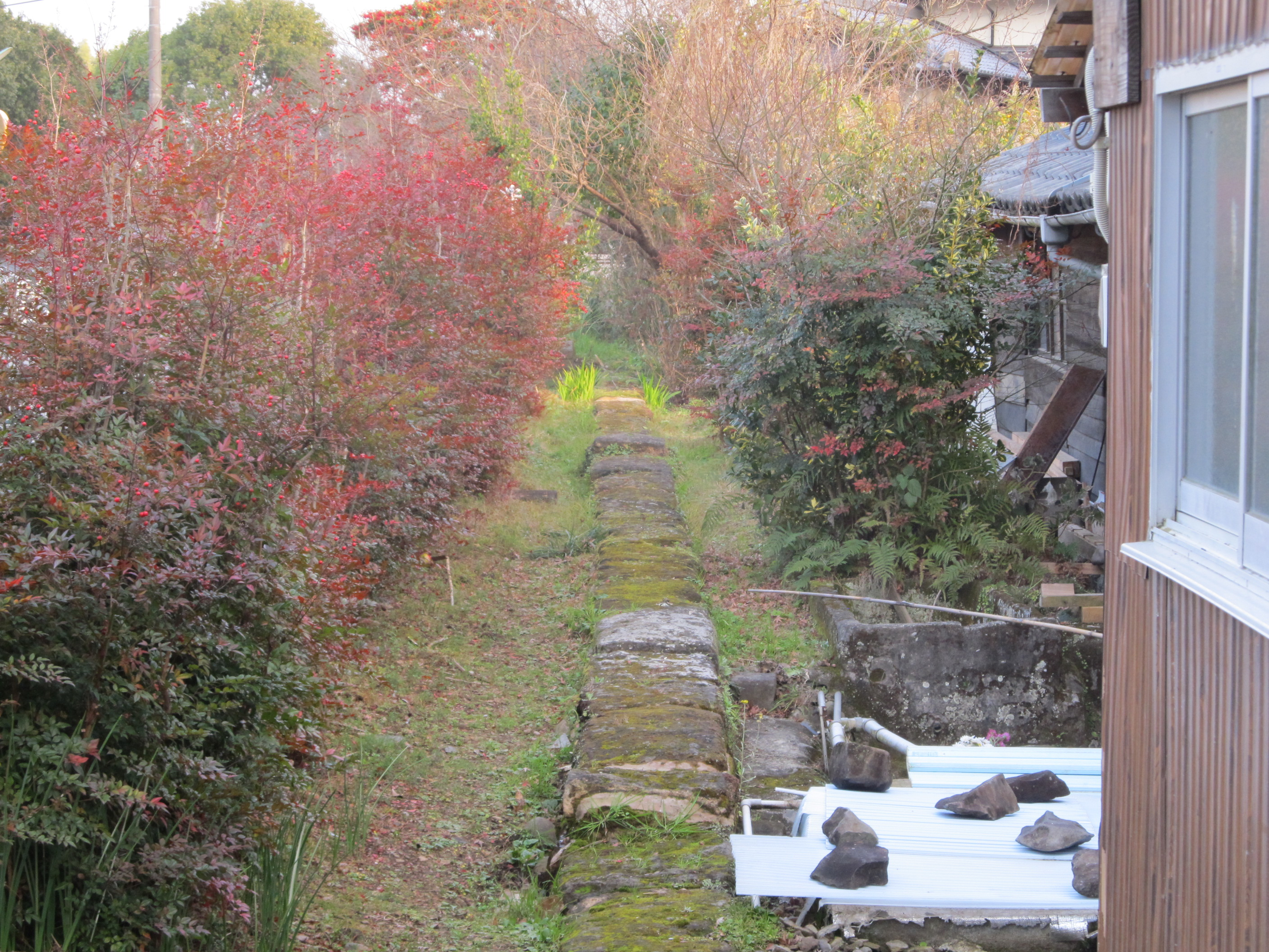 Sluiceway of Gosen Aqueduct.